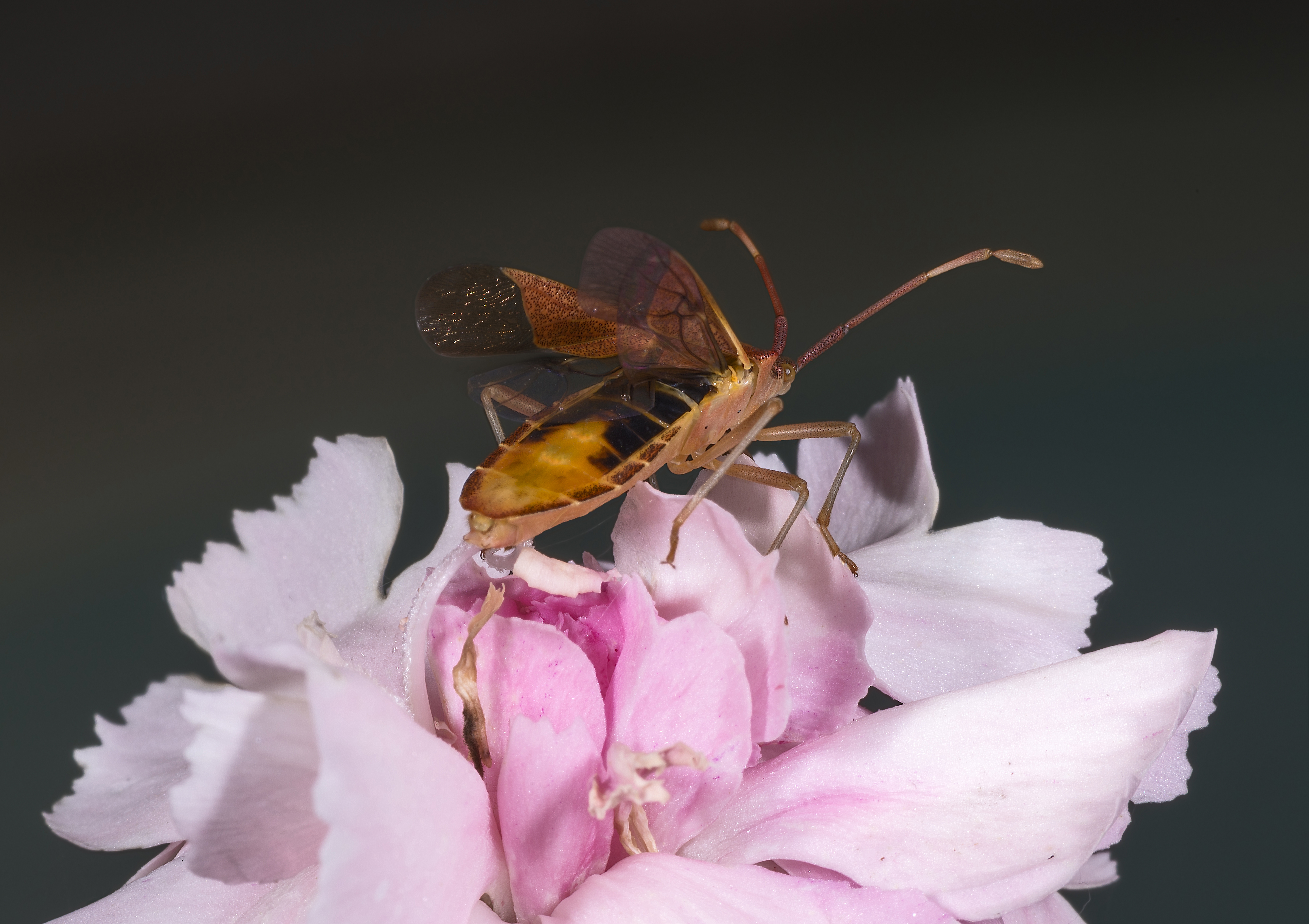 Gonocerus acuteangulus. Takes off on eyelet.